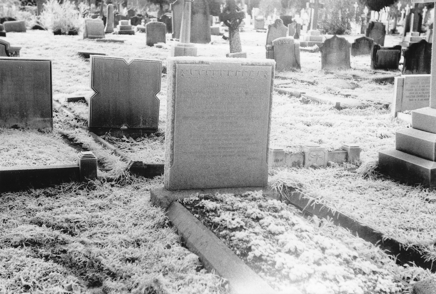 Grave of motor racing driver Richard Seaman on Boulter's Path, Putney Vale Cemetery, under lying snow.